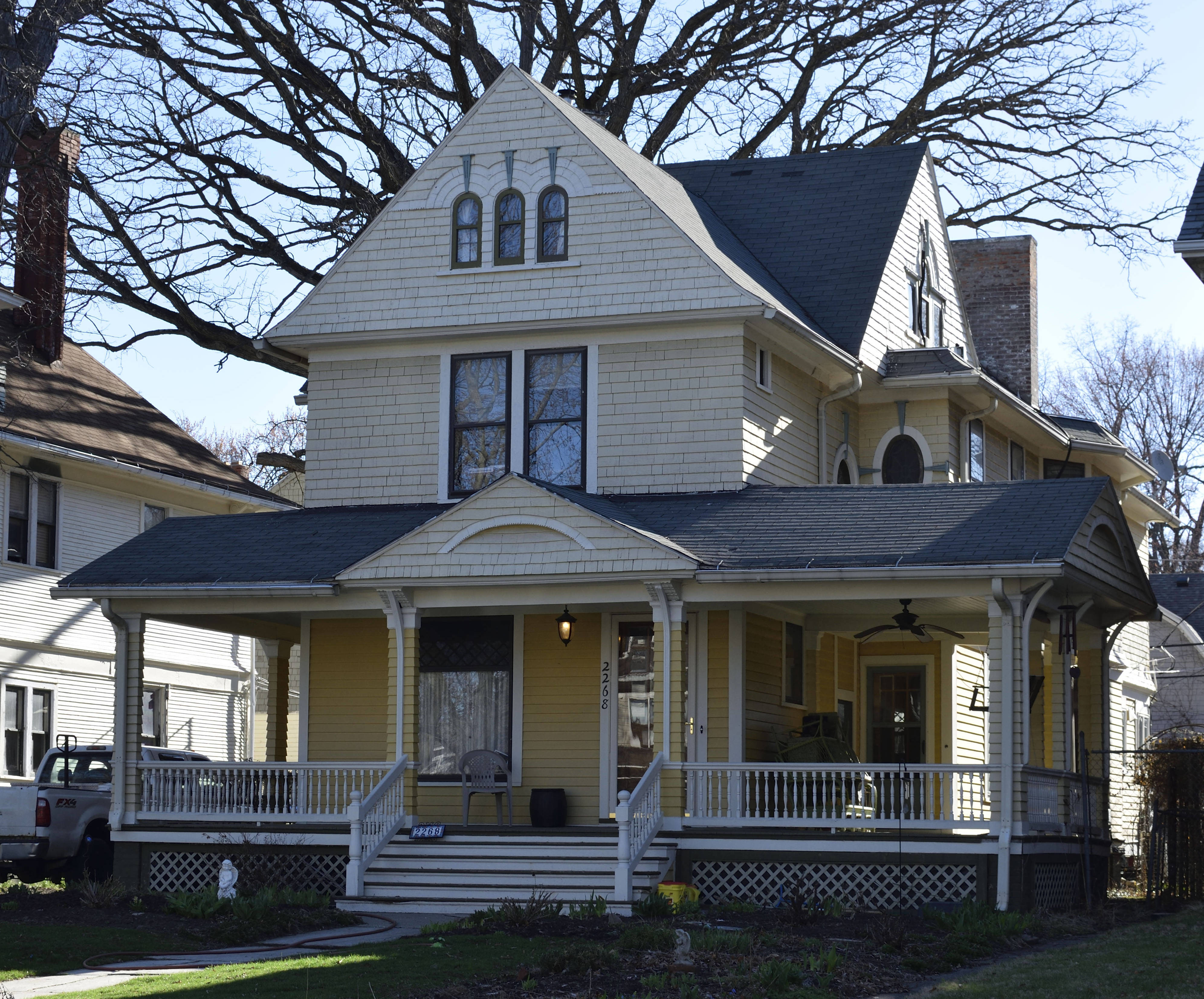 These images are exterior views of a house in the Old West End neighborhood of Toledo, designed by an unknown architect. The photographs were taken on April 9, 2019.